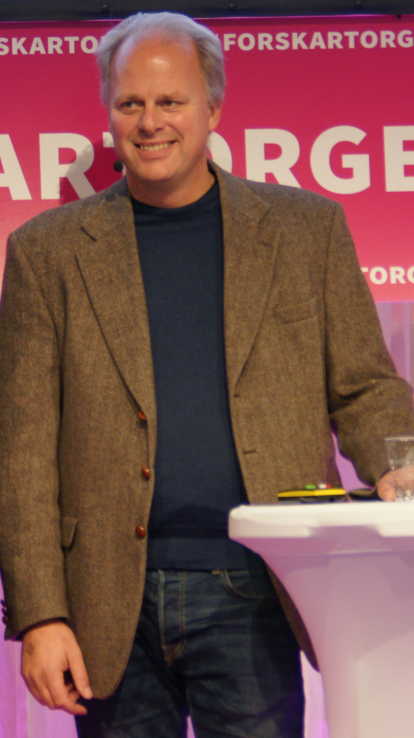 Lars Nyberg, Swedish neurobiologist and professor of psychology and neuroscience, here at Göteborg Book Fair 2016.